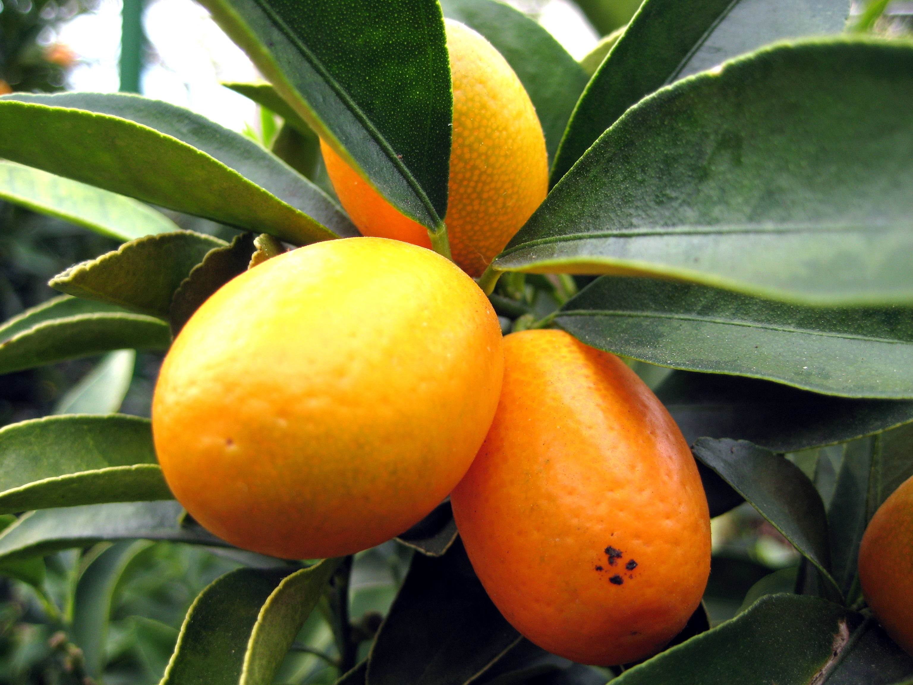 Kumquats, Trauttmansdorff Castle